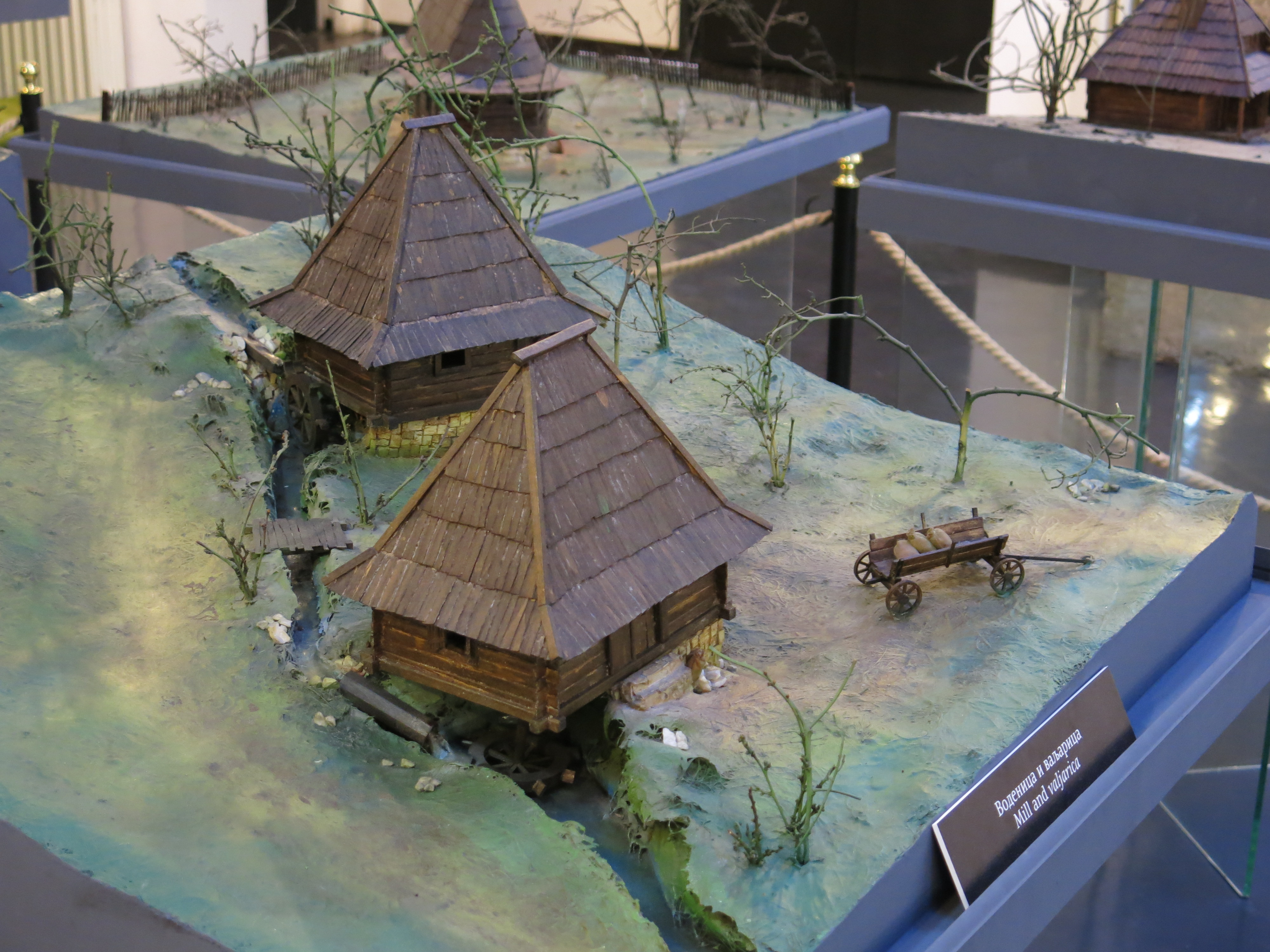 Ethnografic Museum in Belgrade, Serbia